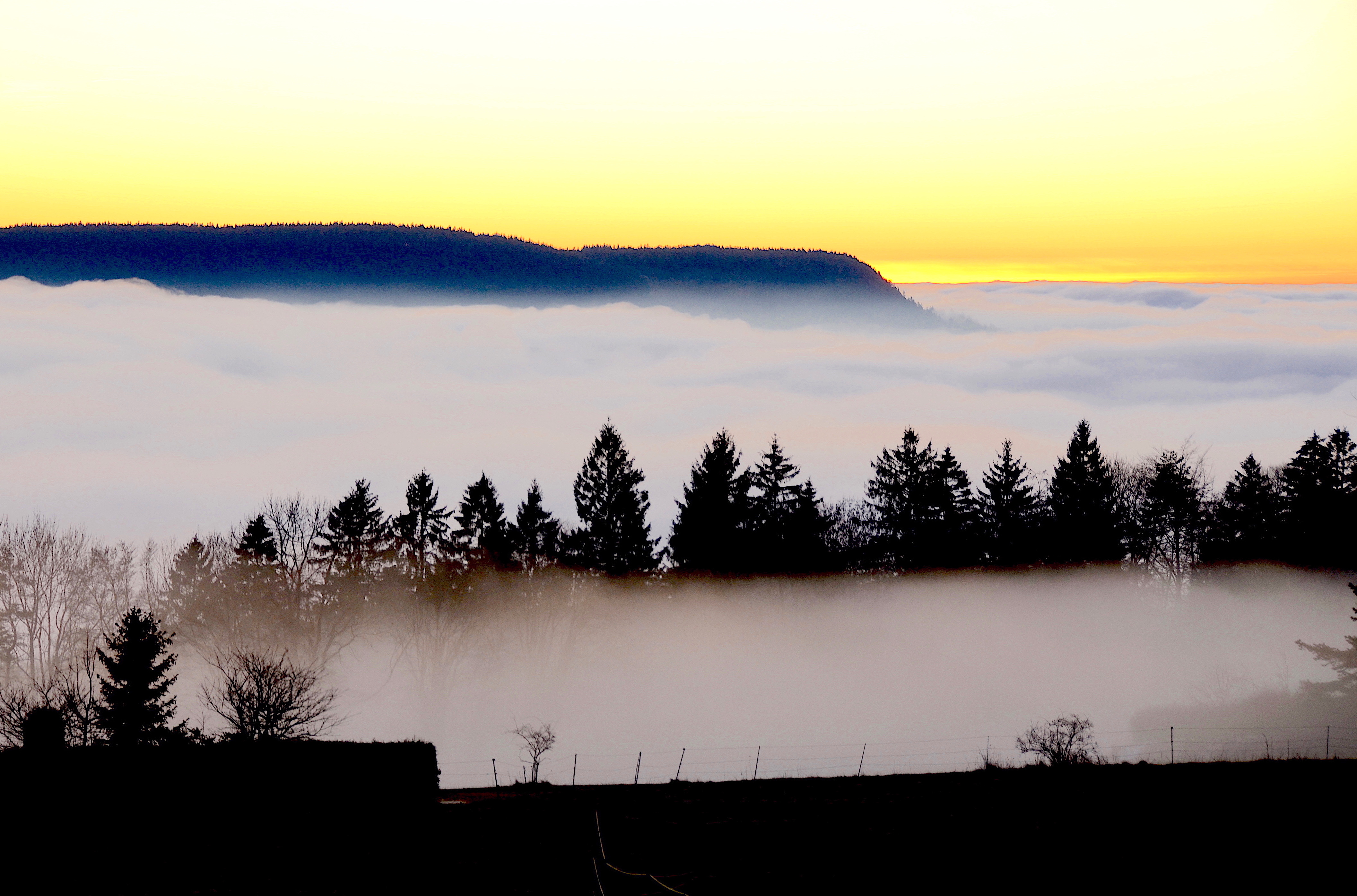 Valley fog in winter on the Swabian Alps (2018)